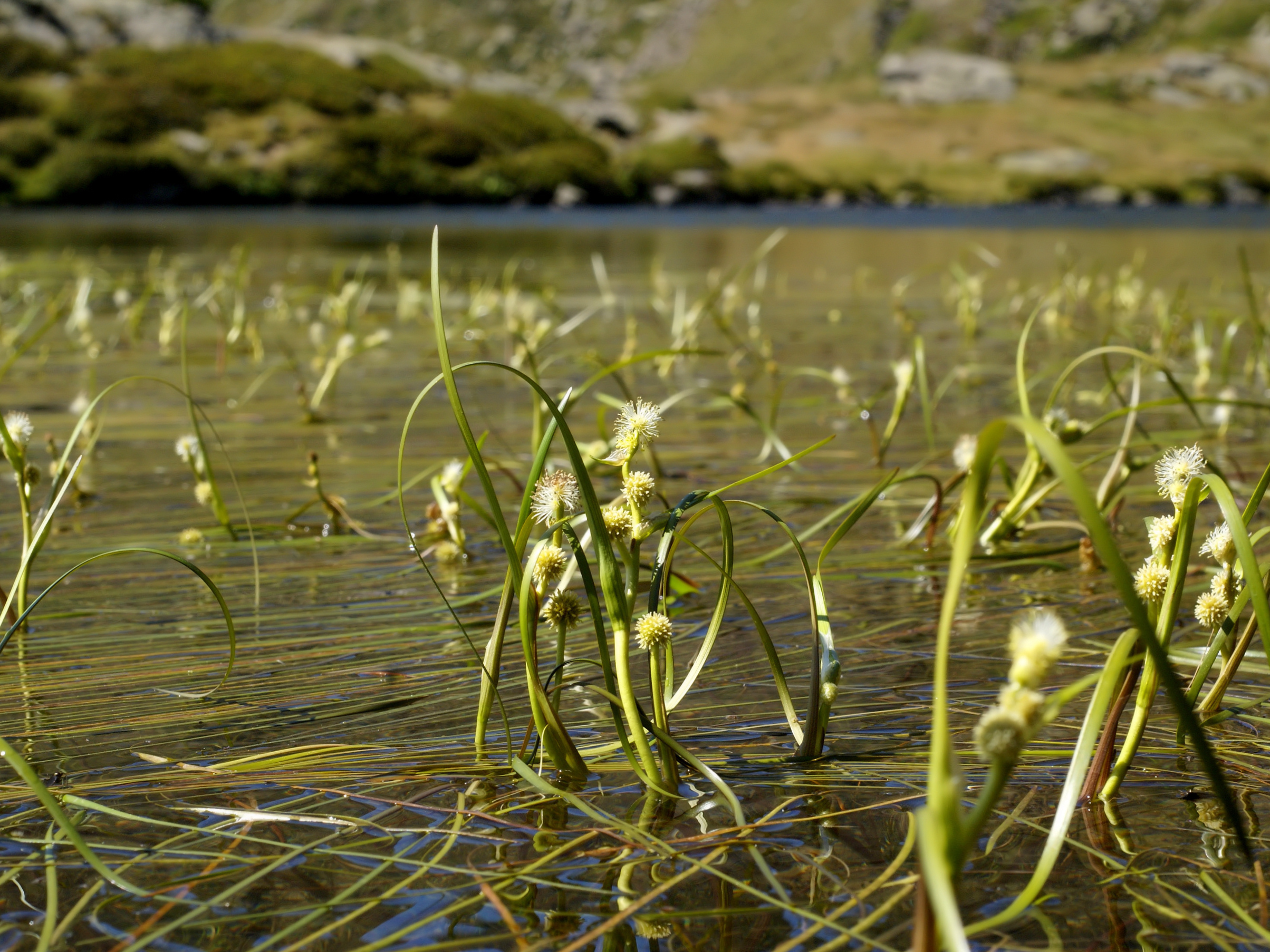 Narrow leaf bur-reed near Arcalis in Andorra.